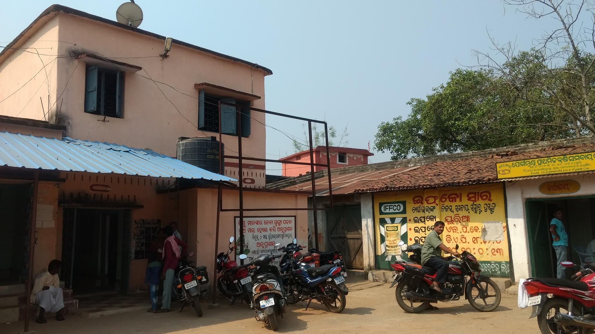 panchayat pic